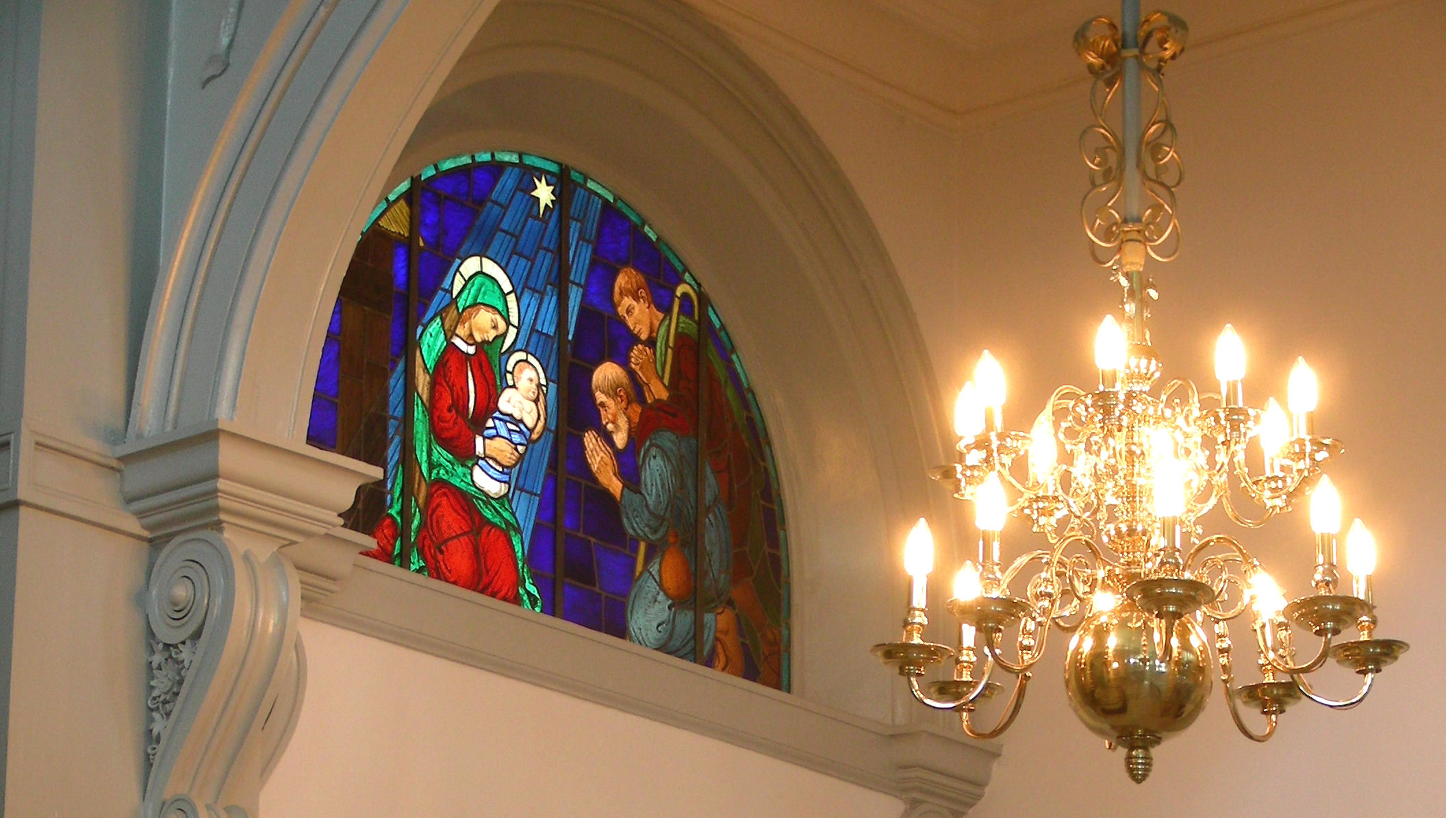 Garnisons Kirke (Garrison Church), Copenhagen, Denmark. Glass painting by Axel Hou.